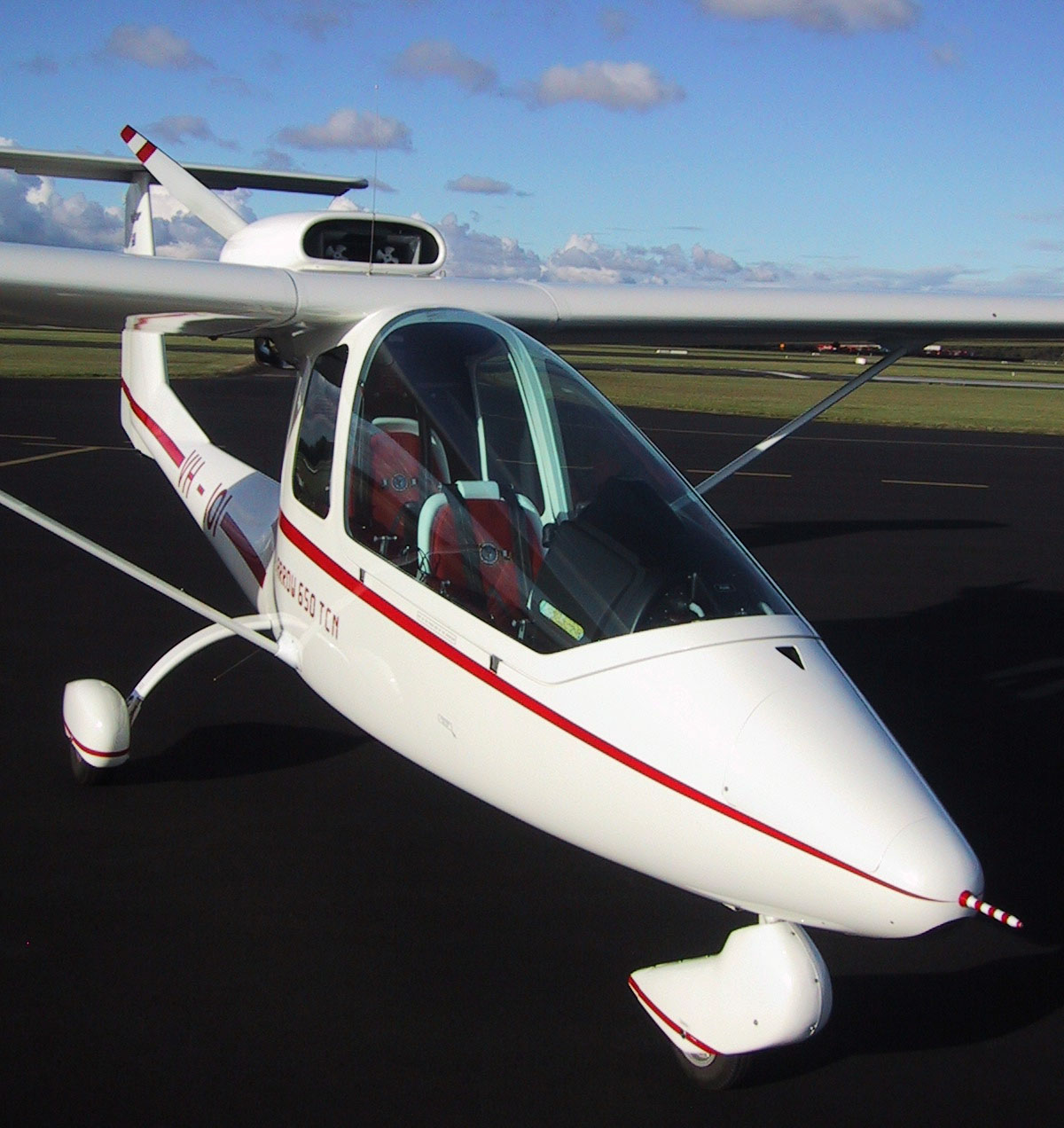 Sky Arrow 650 TCN Photo by Morgan Leigh. 2006.